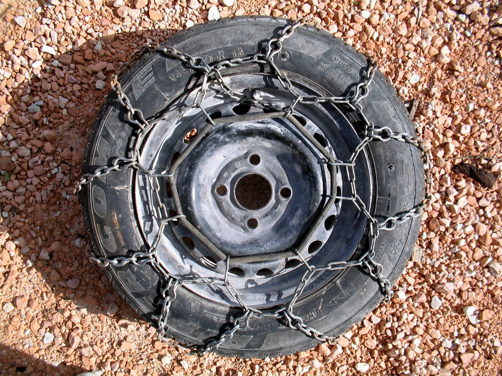 Snow chains characterized by the type icebreaker wire mesh with square cross-section, with tensor elastomer which ensures the proper chain tension.